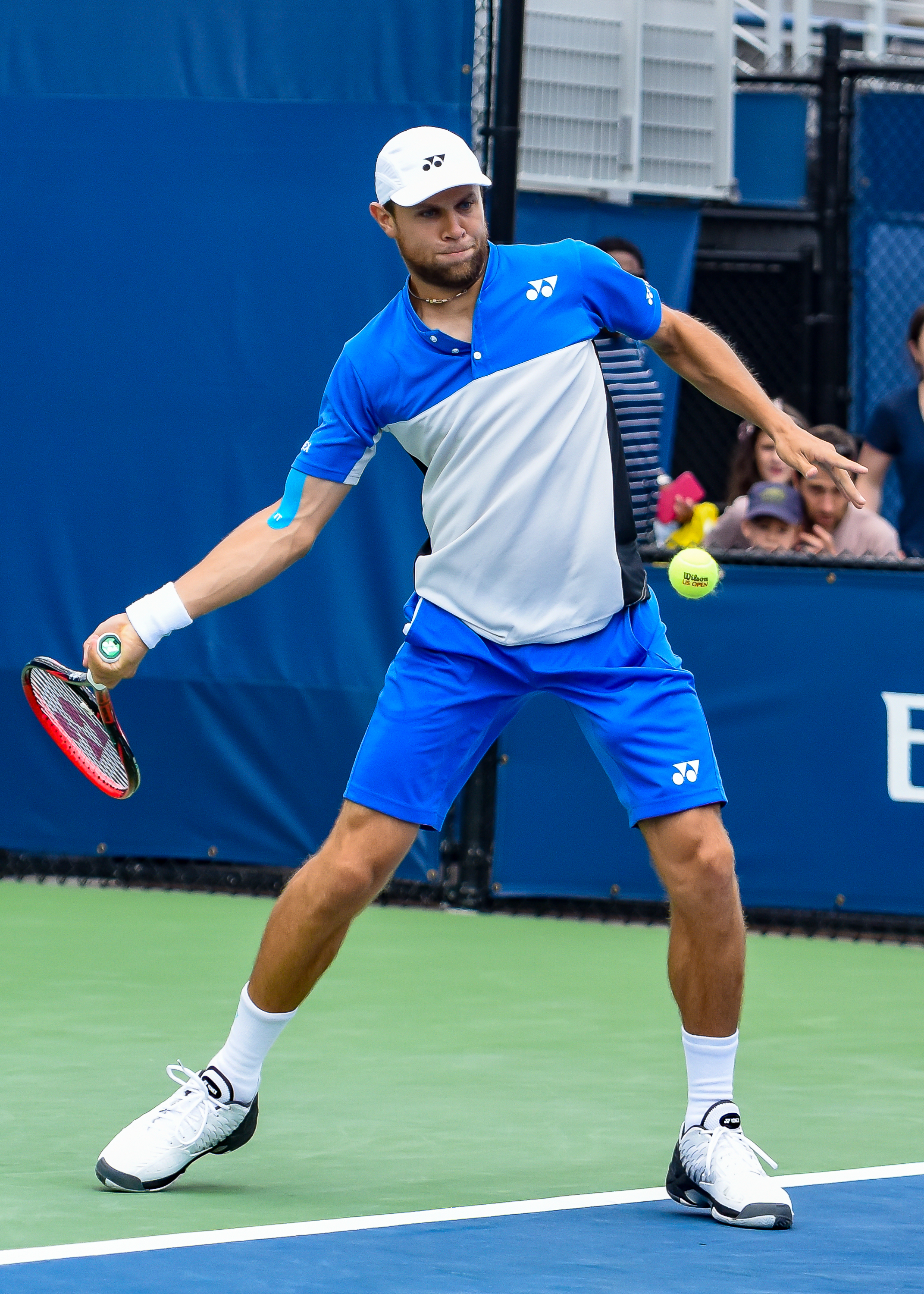 August 25, 2017 Court 7 Flushing, NY Radu Albot.